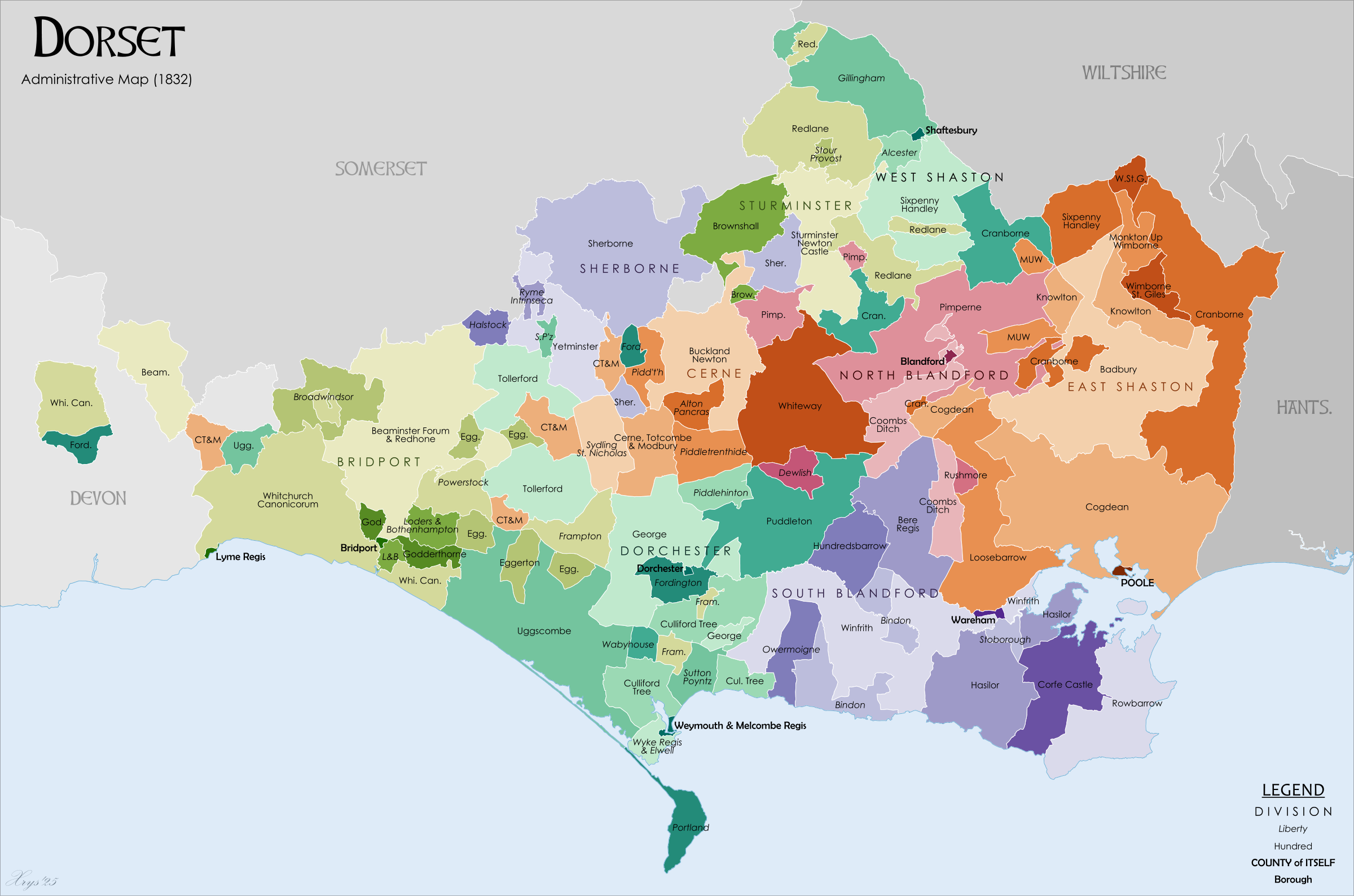 Administrative map of the ancient county of Dorset in 1834. Showing Liberties, Hundreds and Boroughs. Source data on parish boundaries - Kain, R.J.P., and Oliver, R.R. (2001) "Historic parishes of England and Wales: Electronic Map - Gazetteer - Metadata", Colchester: History Data Service. ISBN 0 9540032 0 9. Source data for Boroughs: H.M.S.O. Boundary Commission Report 1832 (courtesy of Structure taken from "The Civil Division of the County of Dorset (1833)" by Edward Boswell.